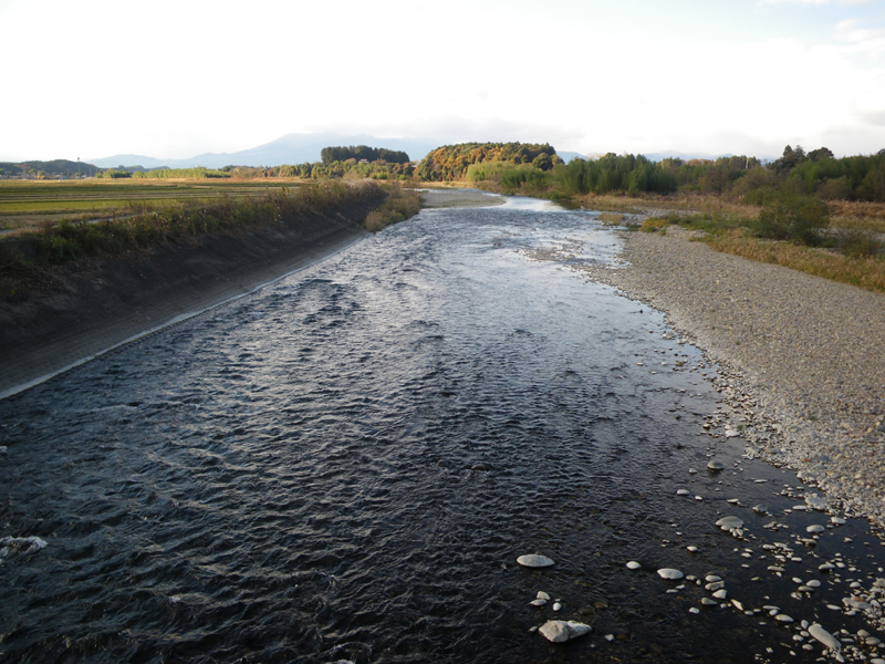 Hōki River lower reaches. Ōtawara, Tochigi, Japan.